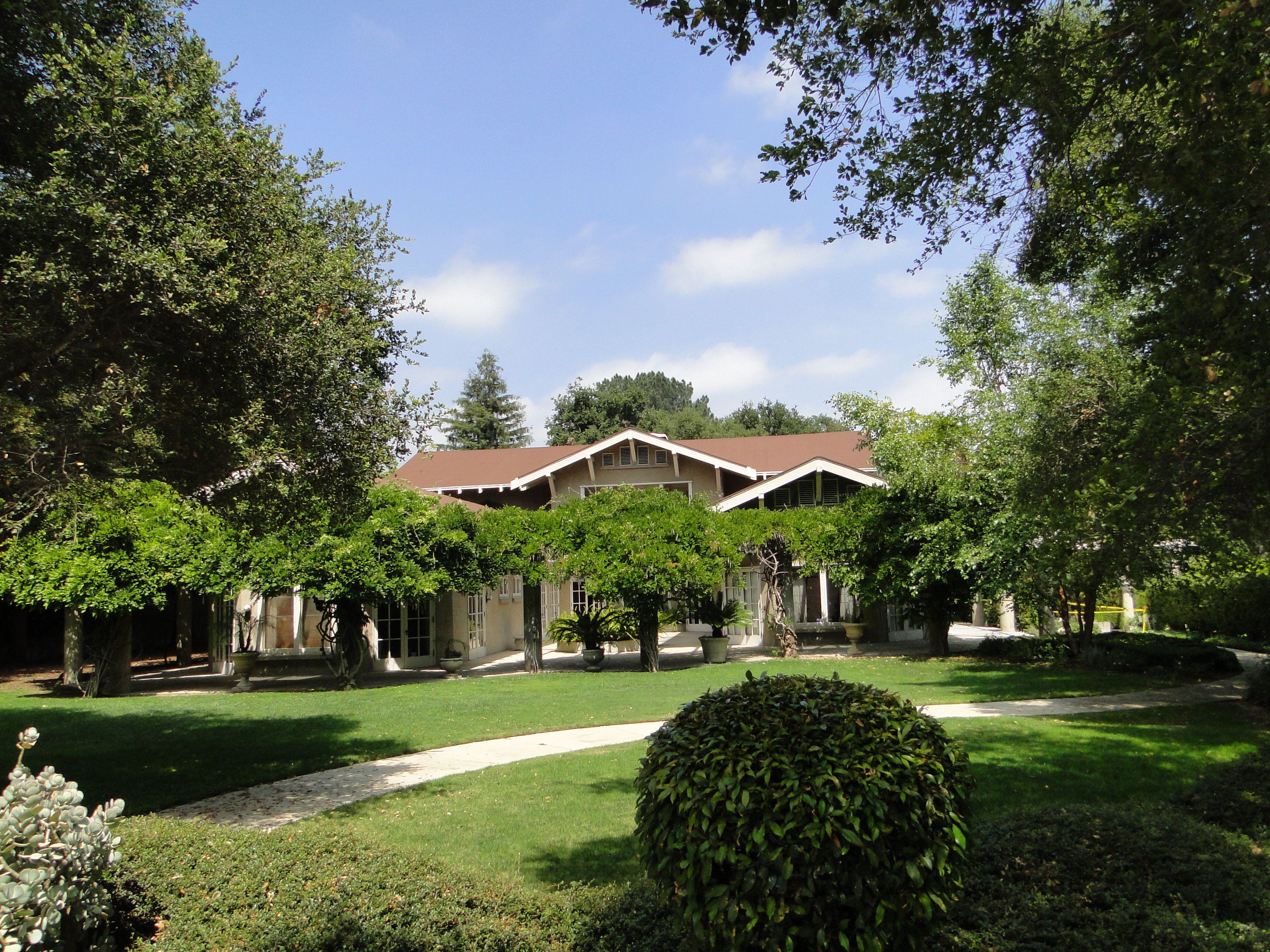 Lanterman House, 4420 Encinas Drive, La Cañada Flintridge, Califorrnia. Listed on the National Register of Historic Places.